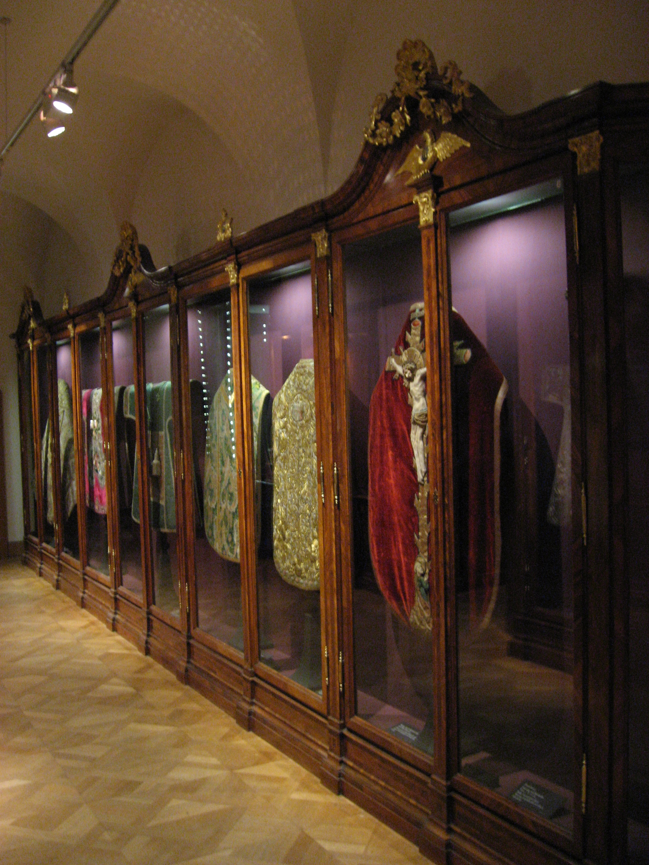 The Ecclesiastical Treasury (Geistliche Schatzkammer) in the Hofburg in Vienna.